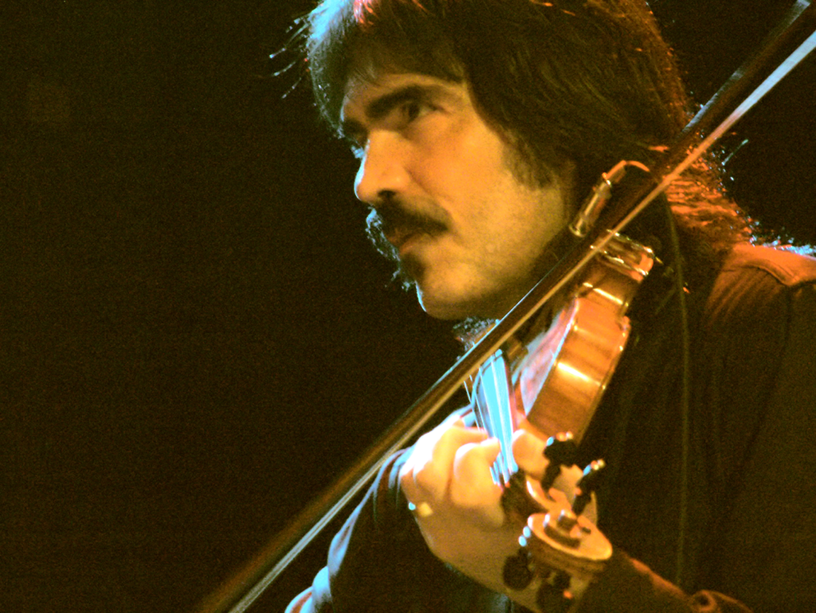 Larry Campbell photographed at the Bowery Ballroom NYC on 2-18-05 by Anthony Pepitone